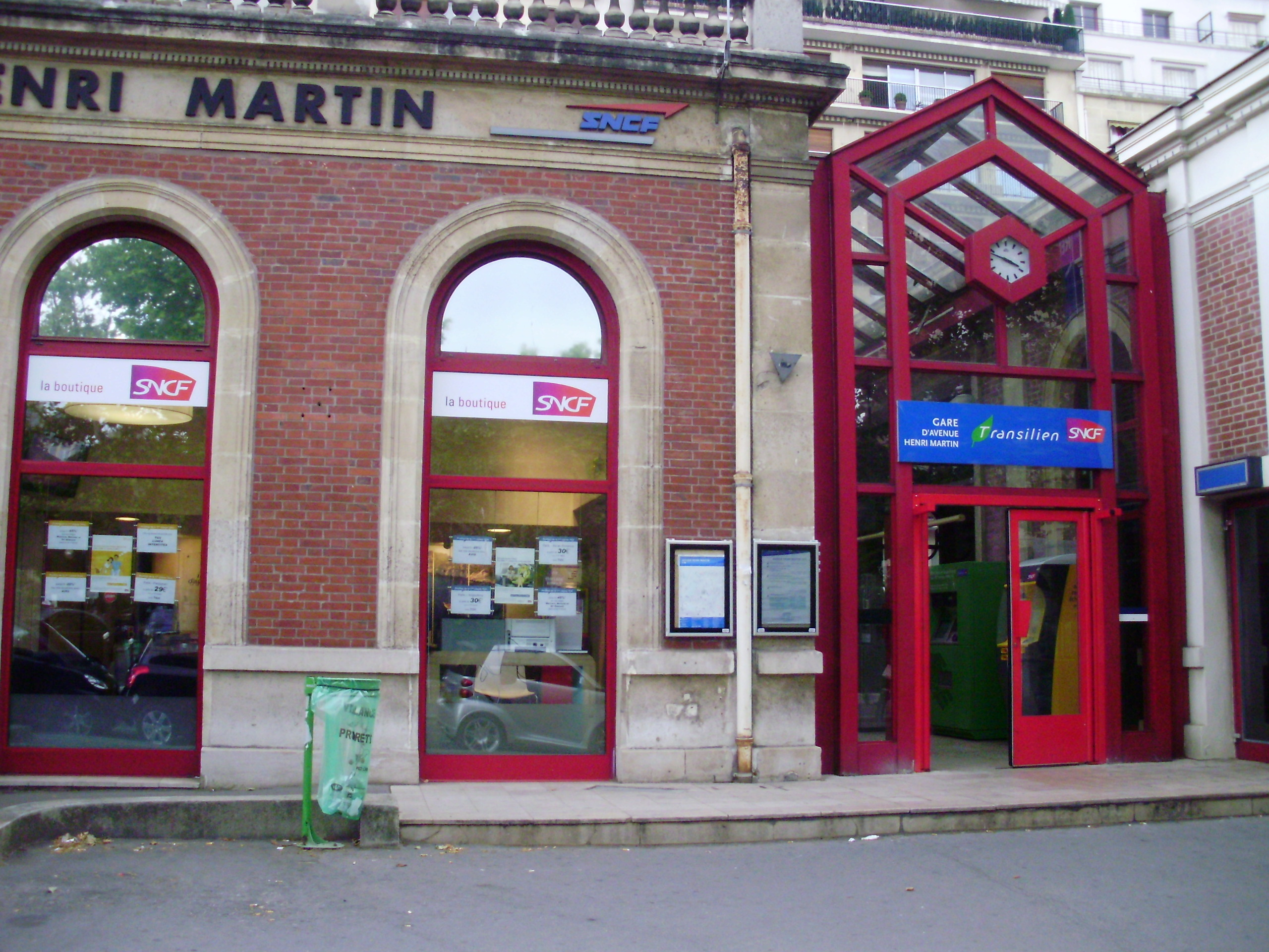 Avenue Henri Martin station, Paris 16e, France (entrance on the boulevard Flandrin east)